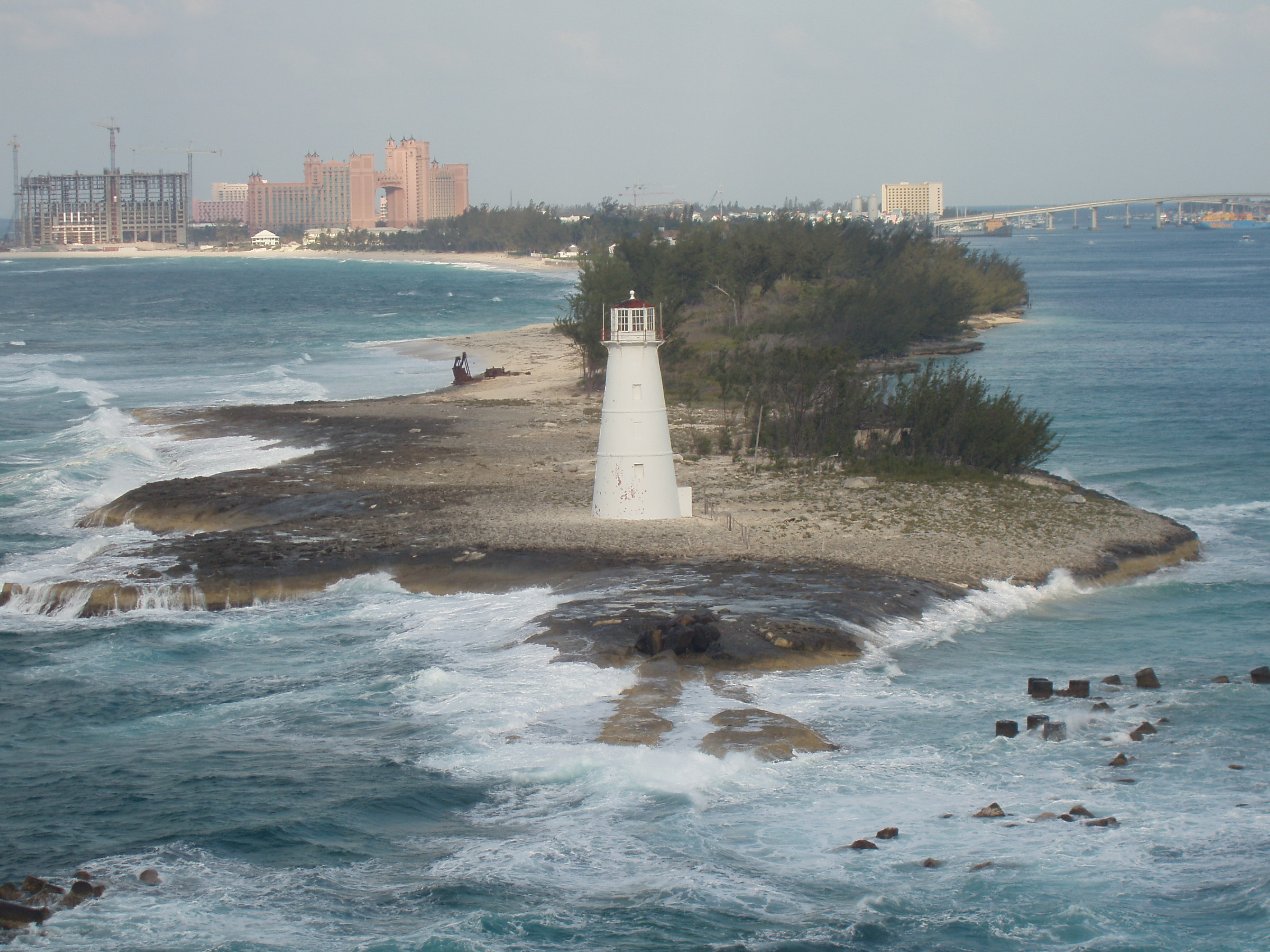 A view of the lighthouse on the end of Paradise Island in Nassau, Bahamas with the Atlantis Paradise Island resort in the distance